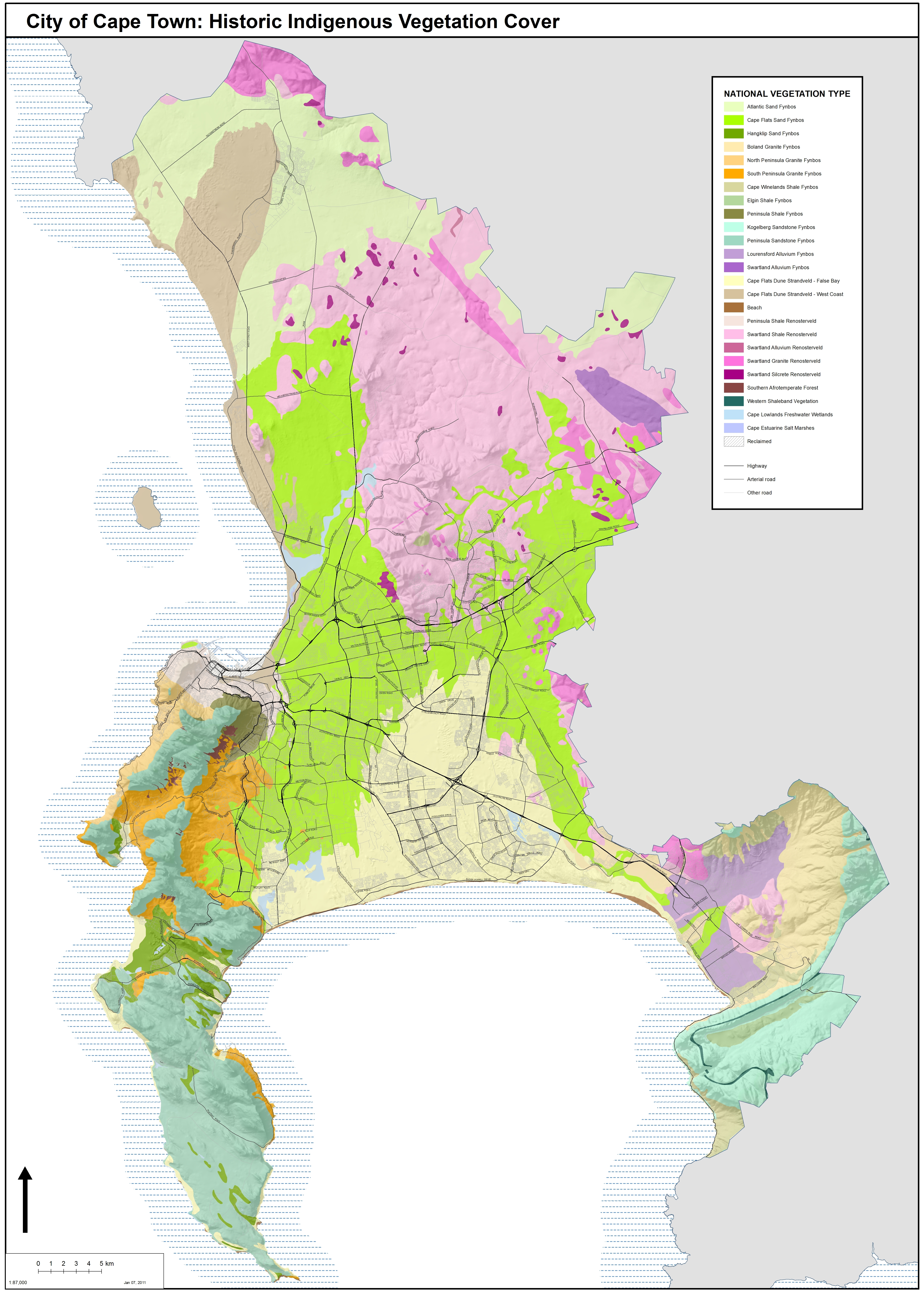 Map of Cape Town showing its many different natural vegetation types overlaid with the modern street map. First of two images showing CTs natural vegetation types before and after the growth of the city. Generated, drawn and coloured using common public domain data. Checked to be in accordance with free public information published by the city of Cape Town's Environmental Resource Management Department.